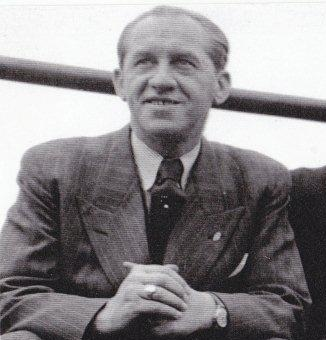 István Wampetits (born 1903), Hungarian-Swedish football player and coach.